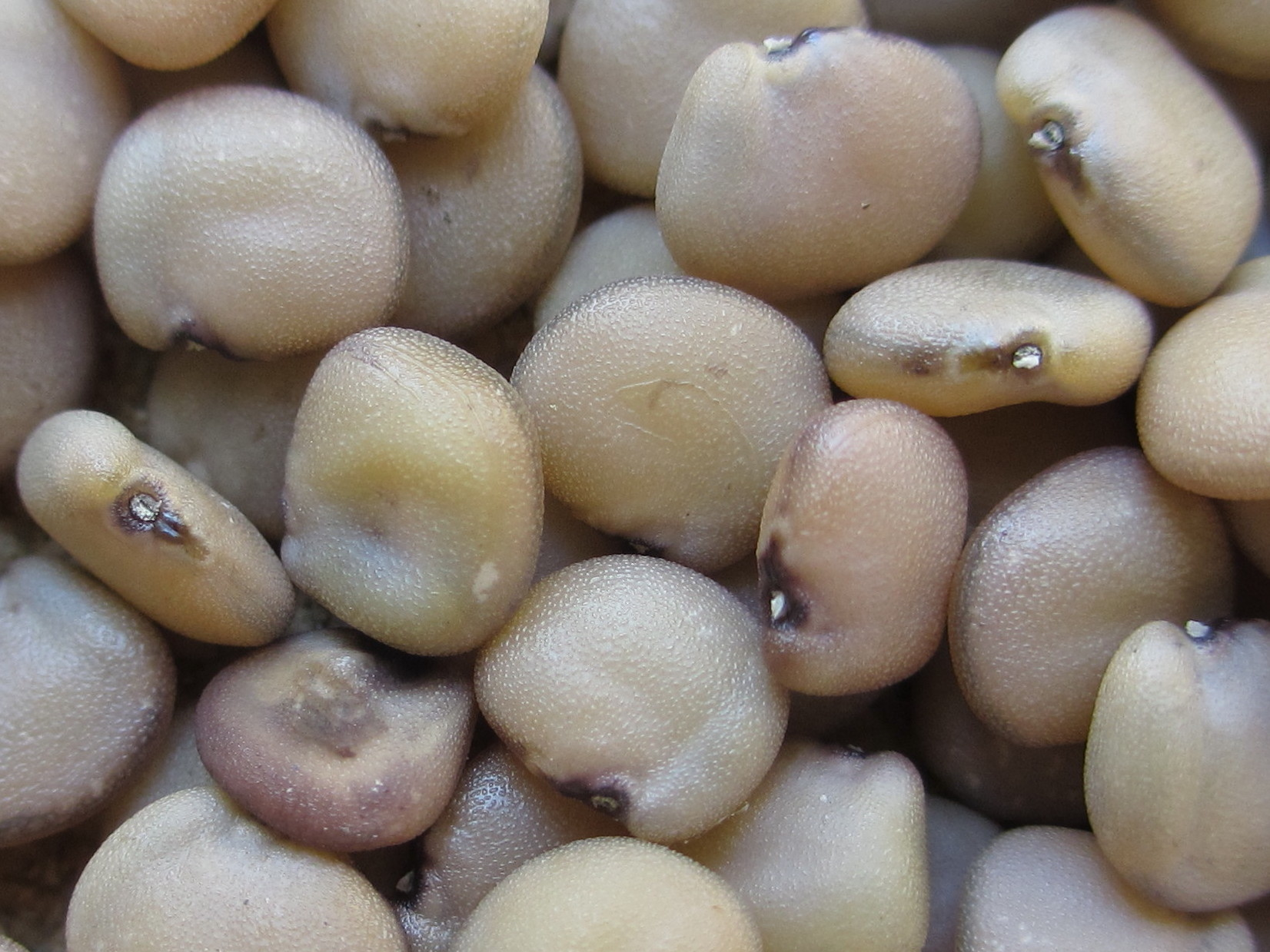 Guar gum from the seeds has many industrial uses (like in paper making, postage stamps, textile industry) and is also used as thickener in the food industry (ice-cream, salad dressings and bakery mixes). The young green pods are used as a vegetable, mainly in Indian dishes.